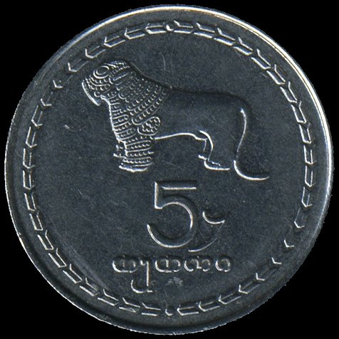 5 Georgian tetri